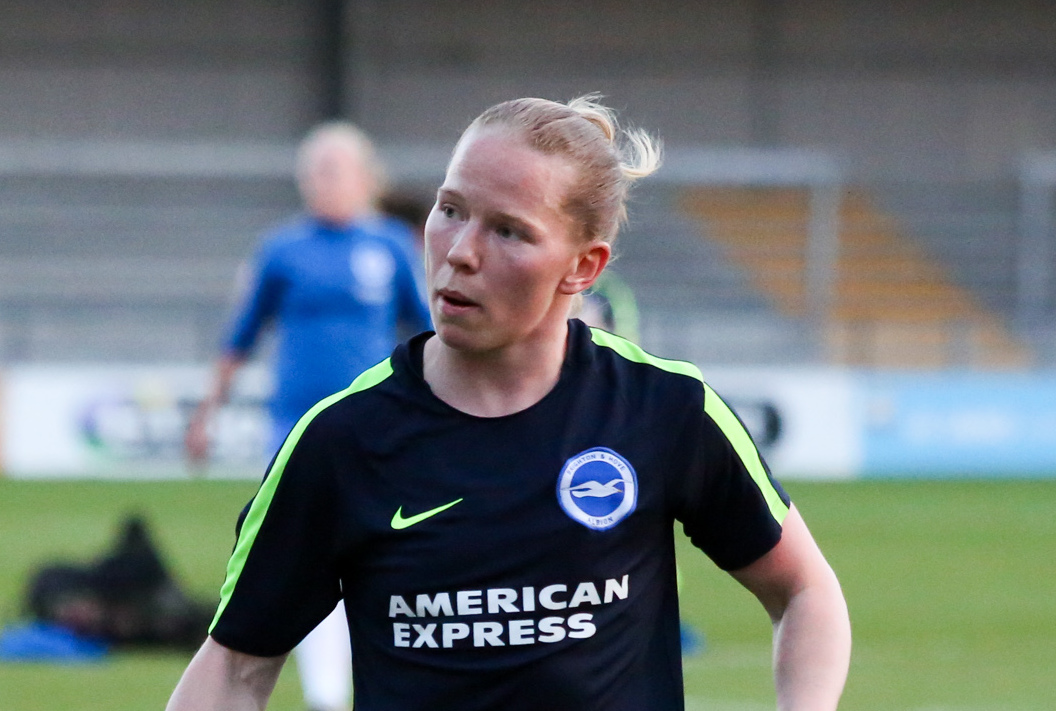 London Bees v Brighton & Hove Albion WFC, 18 April 2018 - Dani Buet